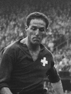 Willy Kernen in 1955.